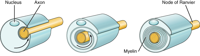 Made from